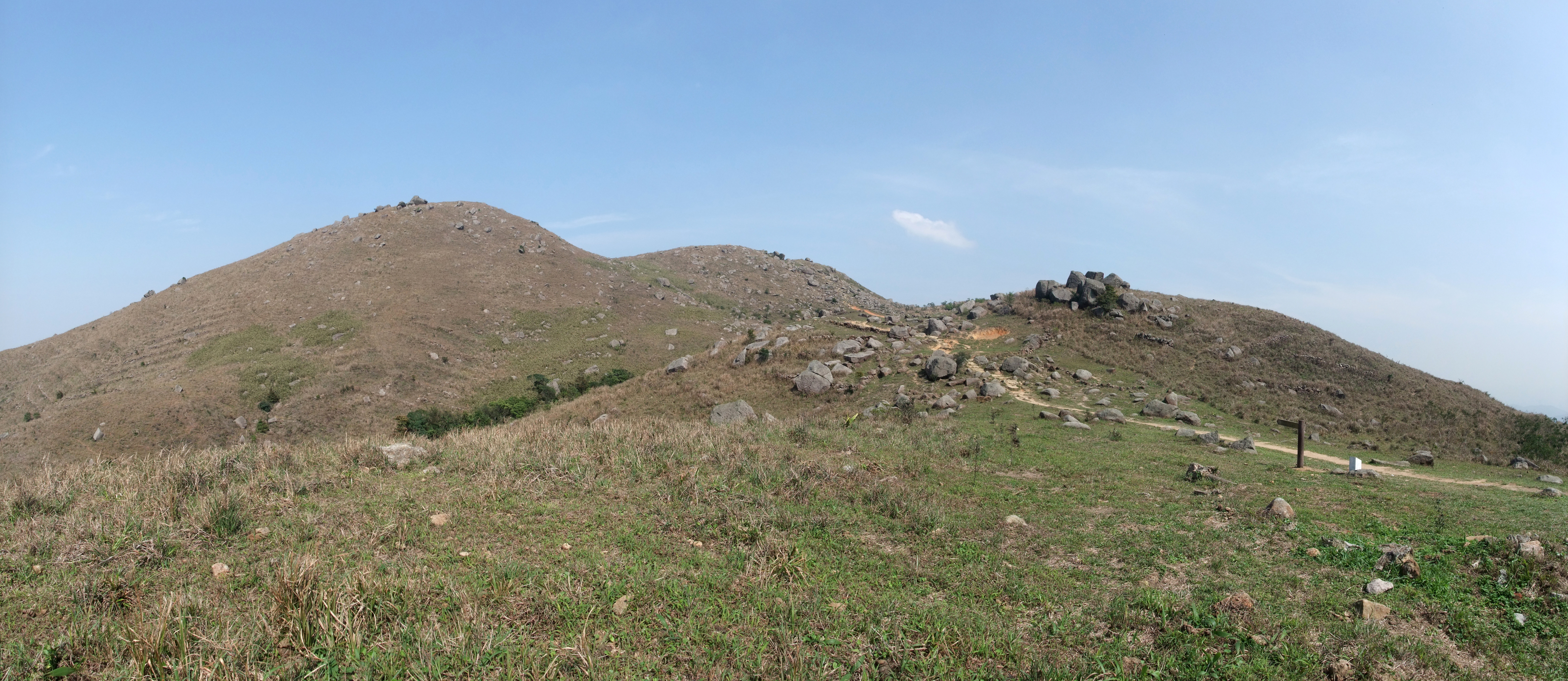 Panoramic photo of Sze Fong Shan, combined from 3358246132, 3358265996, 3358285748, 3357488295, 3357508737, 3358341512, 3358355152, 3358369090 and 3357565447